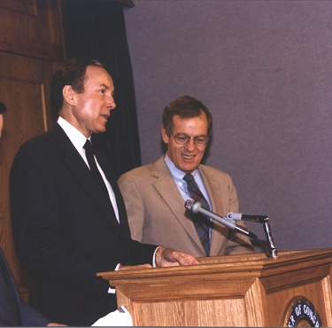 RECA Success - Sen. Hatch holds a press conference with Rep. Wayne Owens (D-Utah) in March 1989 as part of their successful charge to win passage of the Radiation Exposure Compensation Act (RECA), which provides for ongoing compensation to Southern Utahns and others damaged by nuclear testing in the 1950s and 1960s. "Photo courtesy of Sen. Orrin Hatch" Website of U.S. Senator Orrin G. Hatch. The Senator's Photo Gallery - Life in the Senate. [Online] Available Retrieved July 4, 2007.